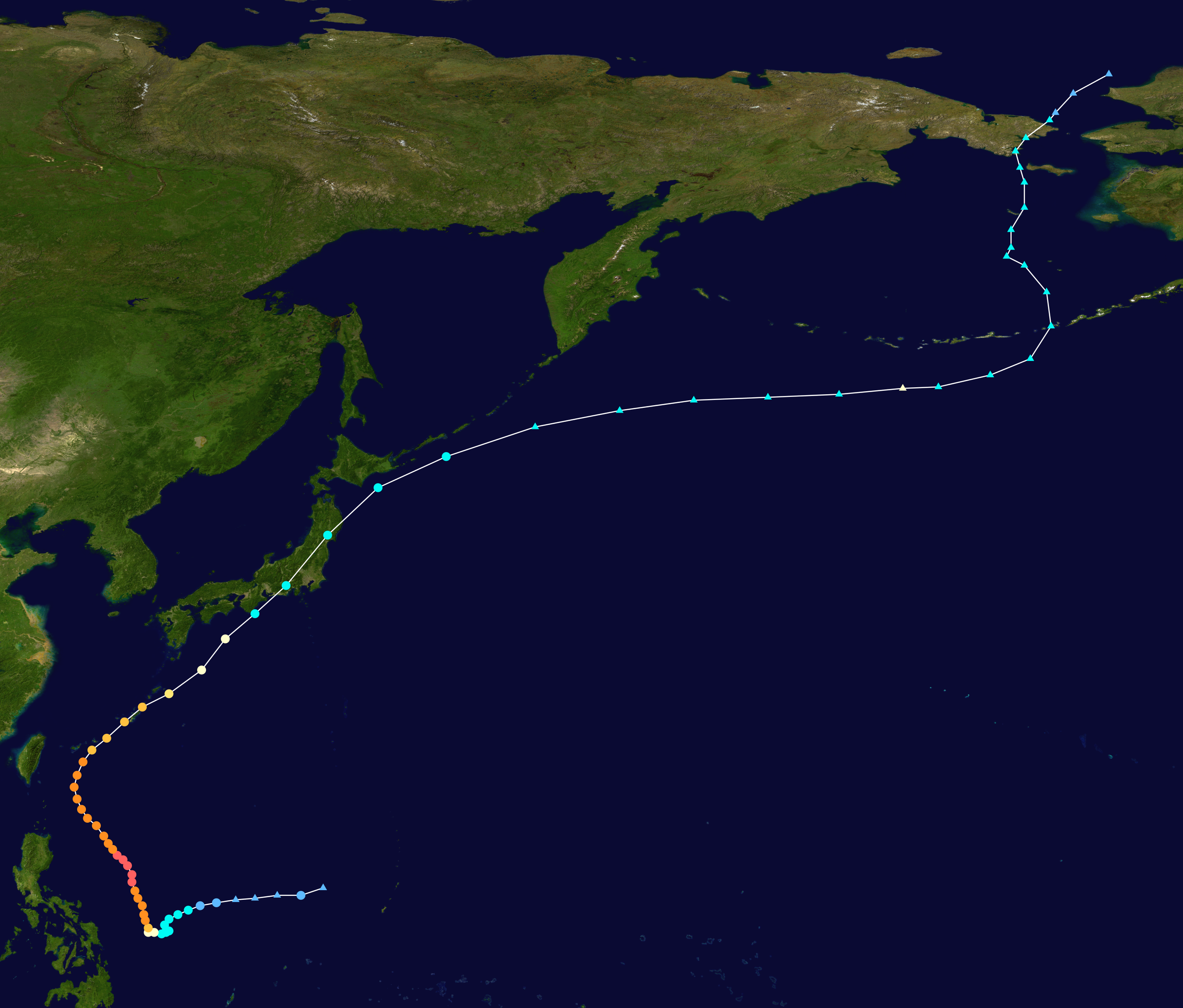 Track map of Typhoon Jelawat of the 2012 Pacific typhoon season. The points show the location of the storm at 6-hour intervals. The colour represents the storm's maximum sustained wind speeds as classified in the Saffir–Simpson scale (see below), and the shape of the data points represent the nature of the storm, according to the legend below. Saffir–Simpson scale Tropical depression≤38 mph≤62 km/h Category 3111–129 mph178–208 km/h Tropical storm39–73 mph63–118 km/h Category 4130–156 mph209–251 km/h Category 174–95 mph119–153 km/h Category 5≥157 mph≥252 km/h Category 296–110 mph154–177 km/h Unknown Storm type Tropical cyclone Subtropical cyclone Extratropical cyclone / Remnant low / Tropical disturbance / Monsoon depression